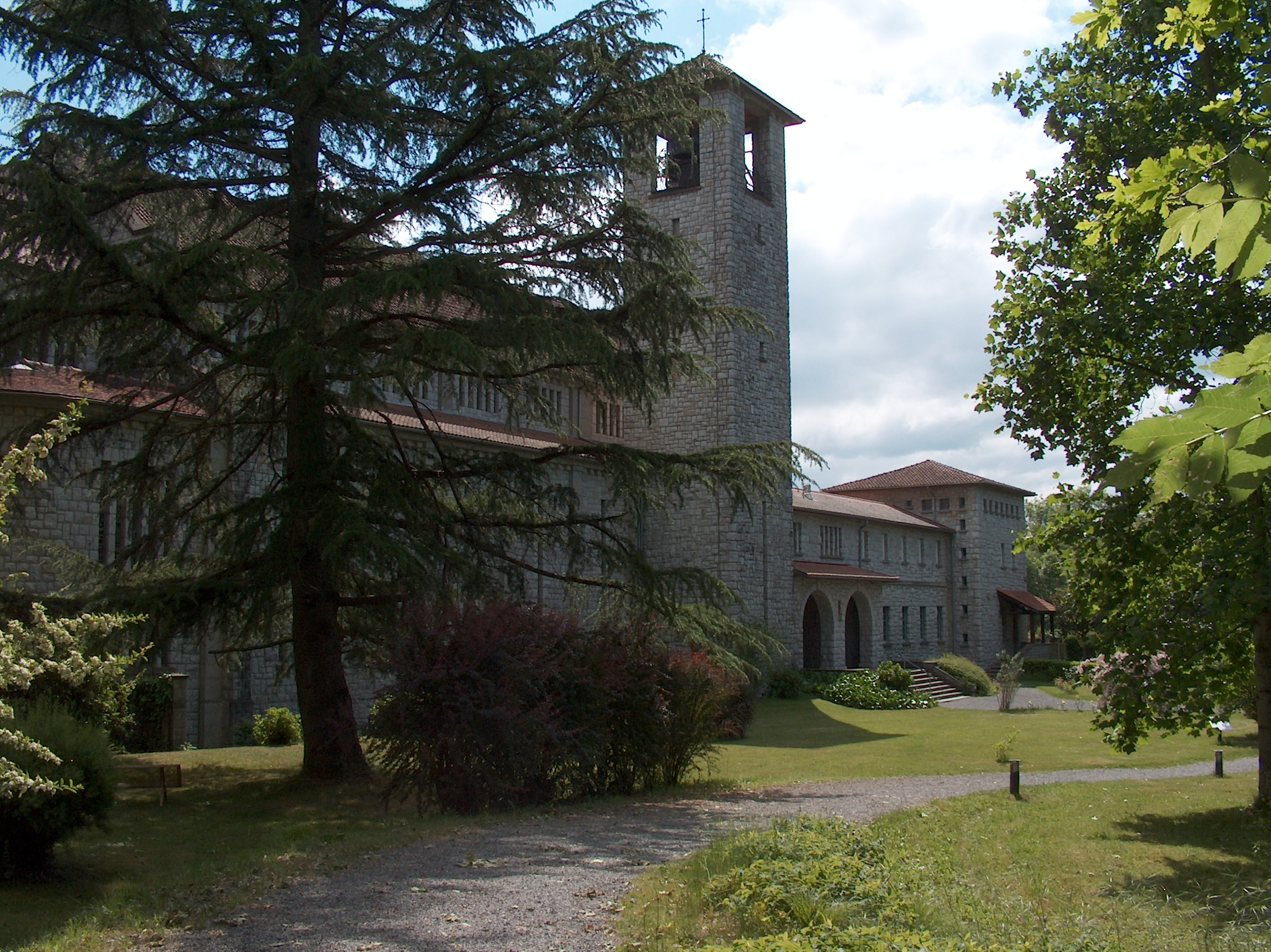 General view of abbey of Our Lady, in Tournay (65190), France (south-west)